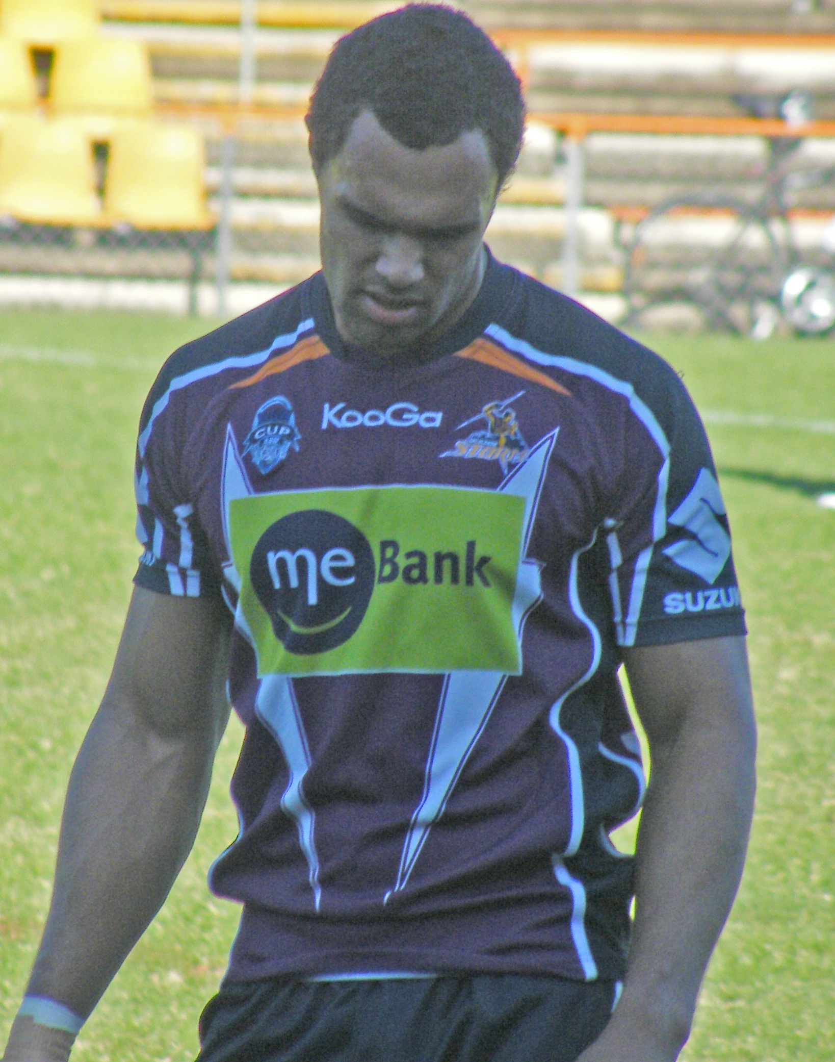 of the Melbourne Storm RLFC.